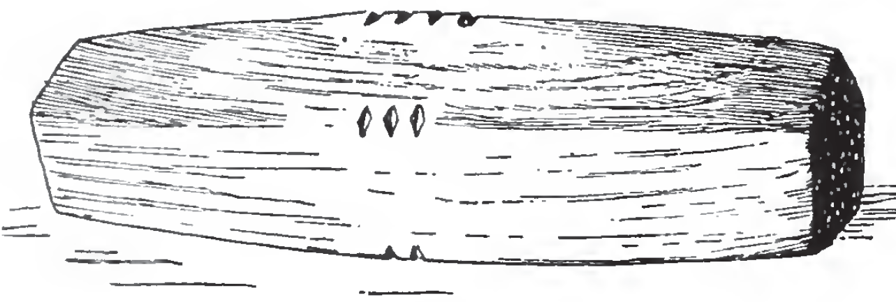 5-faced long die for the Korean game Tjyong-Kyeng-To (Game of Dignitaries).